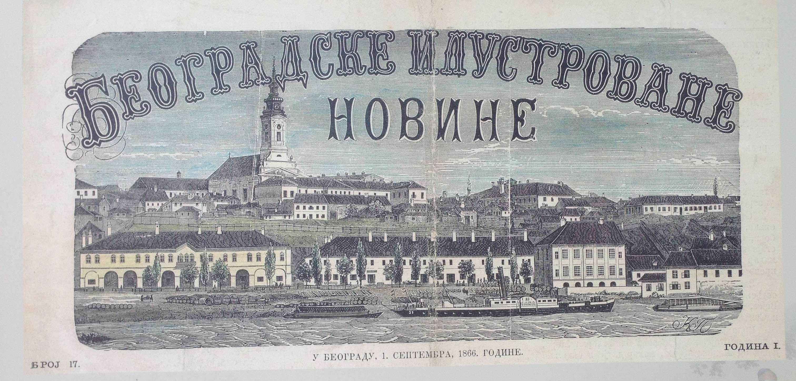 The nemeplate of "Beogradske ilustrovane novine", Belgrade 1866. Srpski (latinica): Zaglavlje "Beogradskih ilustrovanih novina", Beograd 1866.